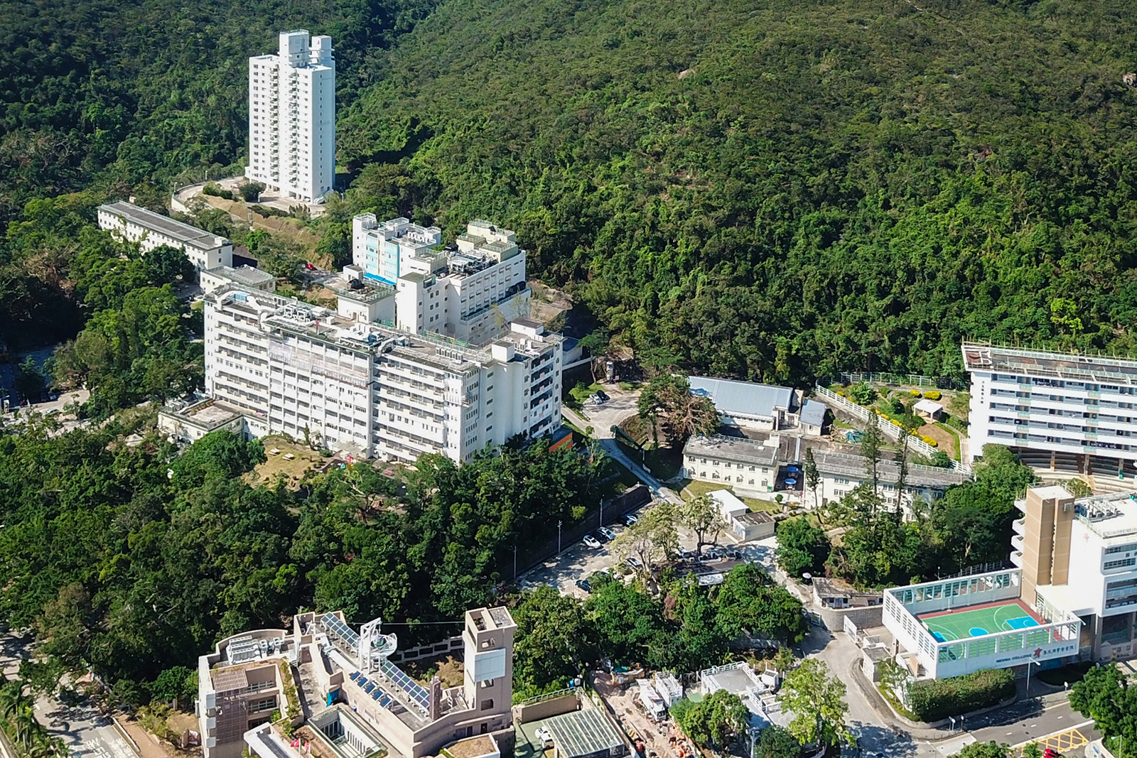 Grantham Hospital